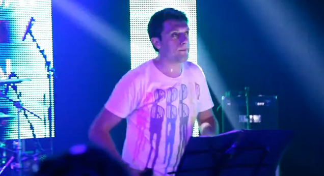 Aram Mp3 performing Love Is Gone by David Guetta